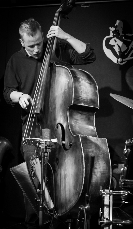 Petter Eldh with Gard Nilssen’s Acoustic Unity at Herr Nilsen. The concert was part of the Oslo Jazz Festival in Norway and took place on 18. August 2016. Lineup: Gard Nilssen (drums) Petter Eldh (double bass) André Roligheten (saxophone) Jørgen Mathisen (saxophone) Kristoffer Berre Alberts (saxophone)